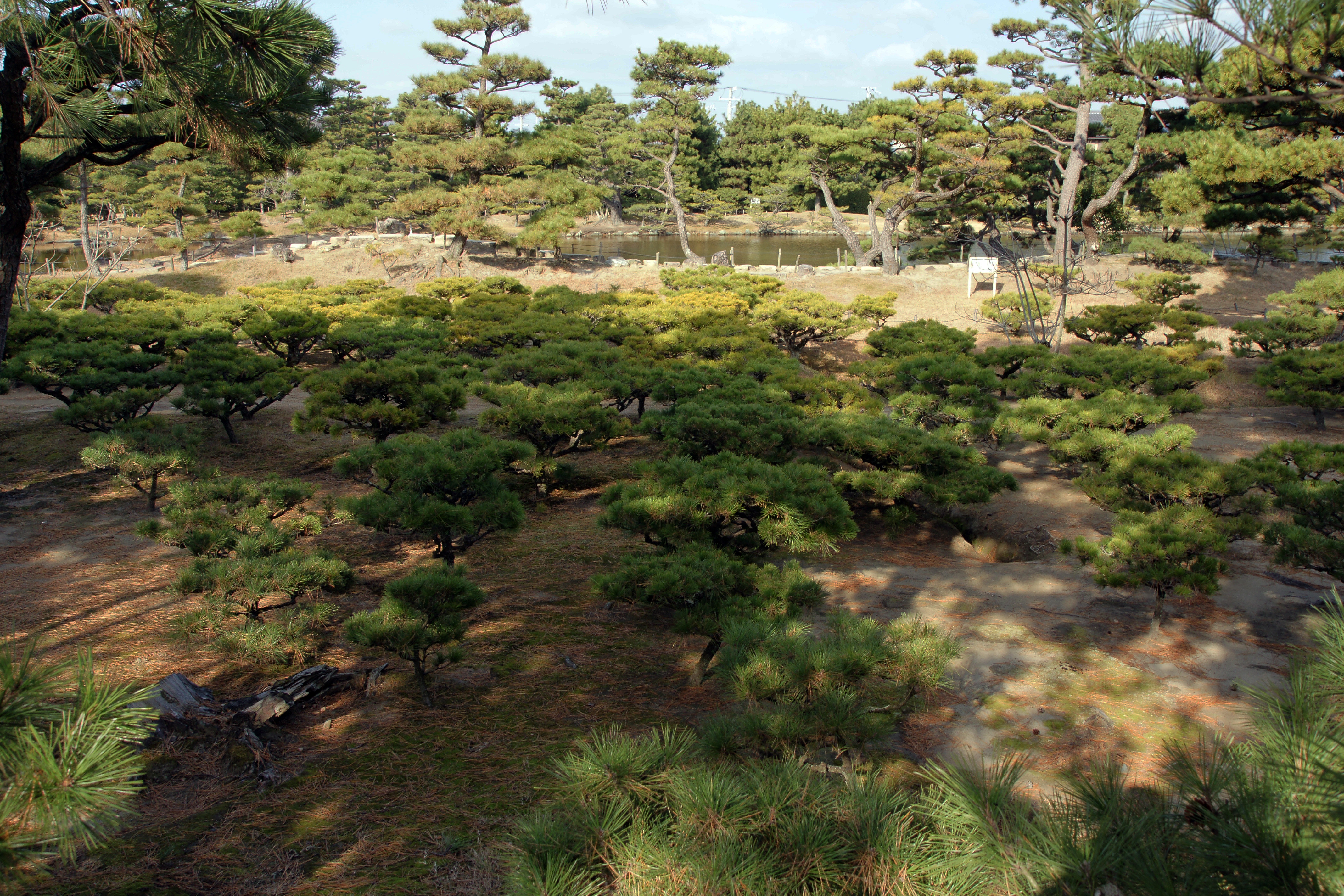 Yosuien, Wakayama, Wakayama prefecture, Japan